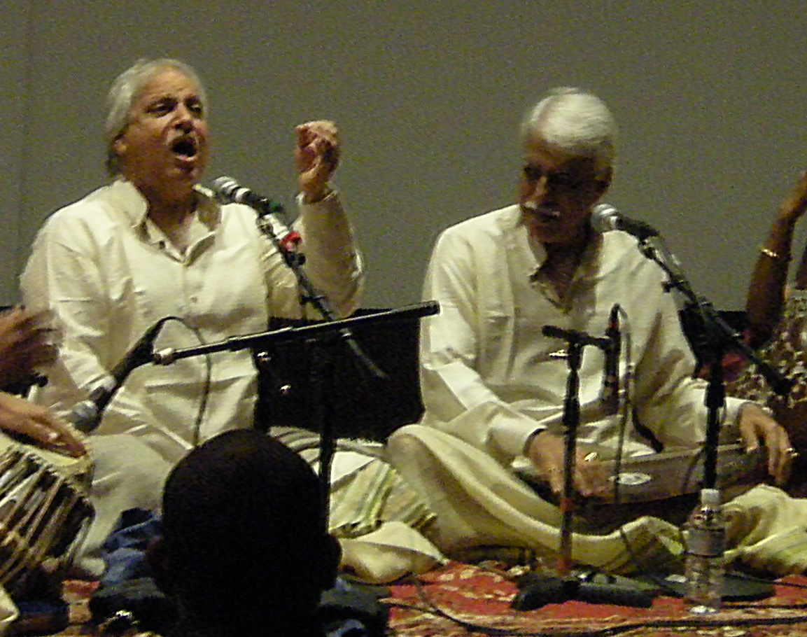 North Indian classical vocalists Rajan and Sajan Mishra performing at Kane Hall, University of Washington as part of the Ragamala concert series.